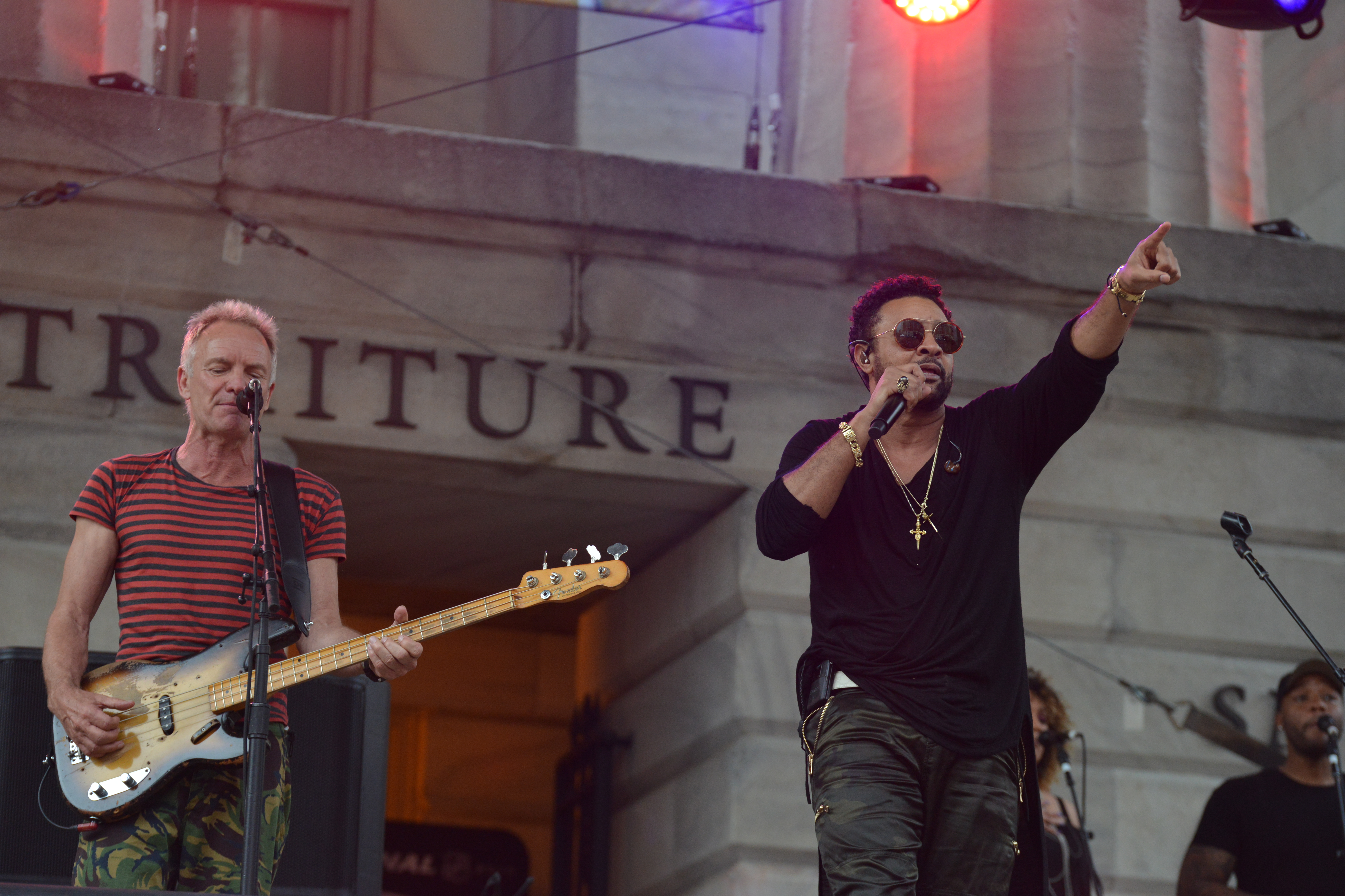 Capitals All Caps playoff Concert 2018